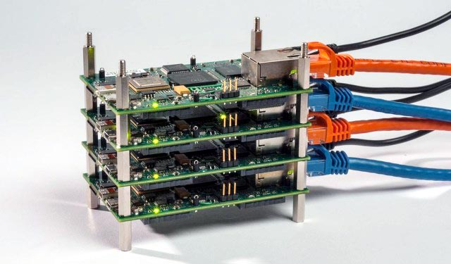 Adapteva parallella parallel programming learning board in a cluster setup.